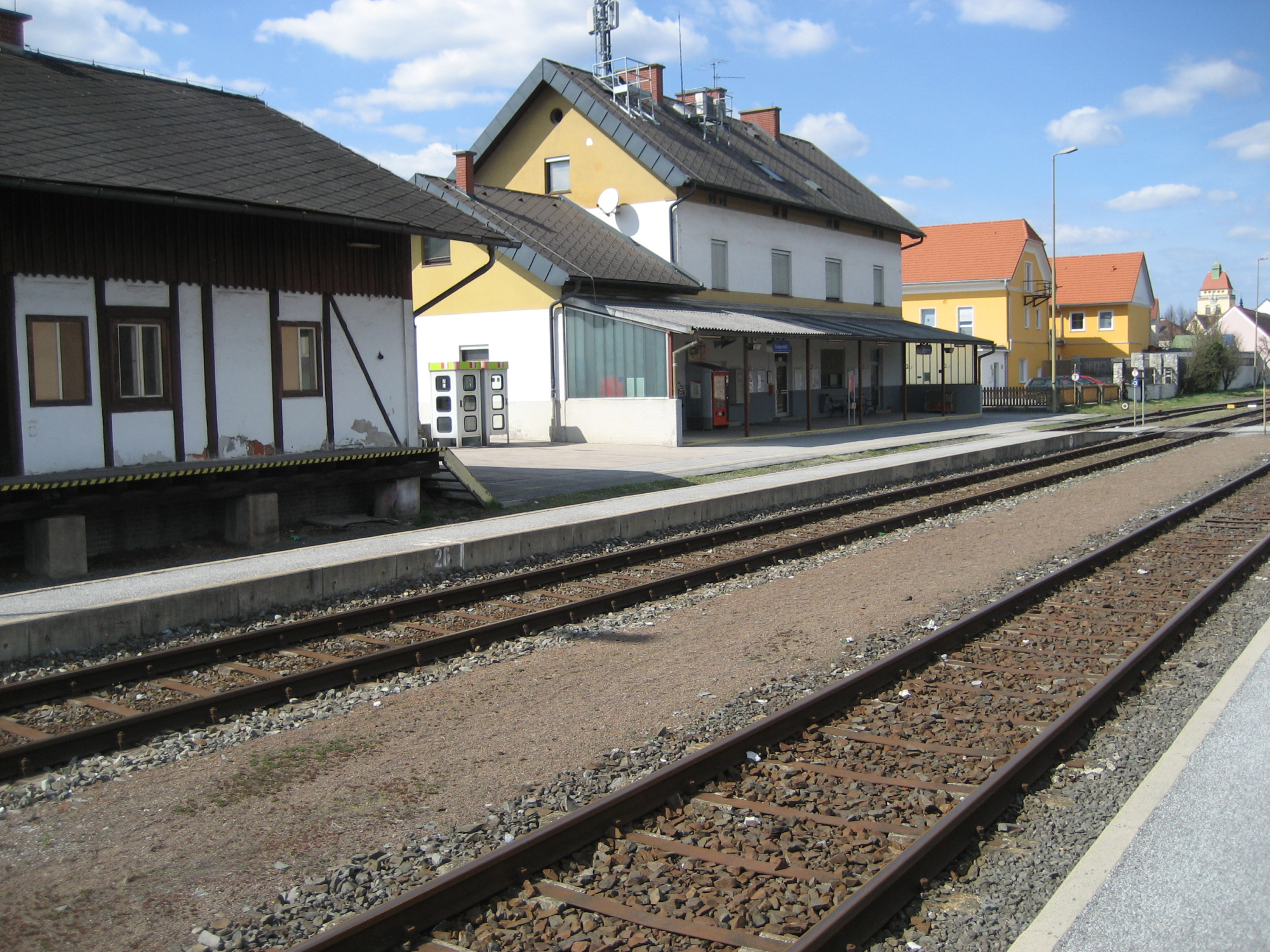 train station Fürstenfeld in Styria